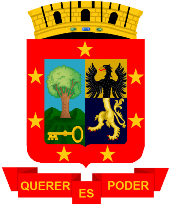 Coat of Arms of Portoviejo